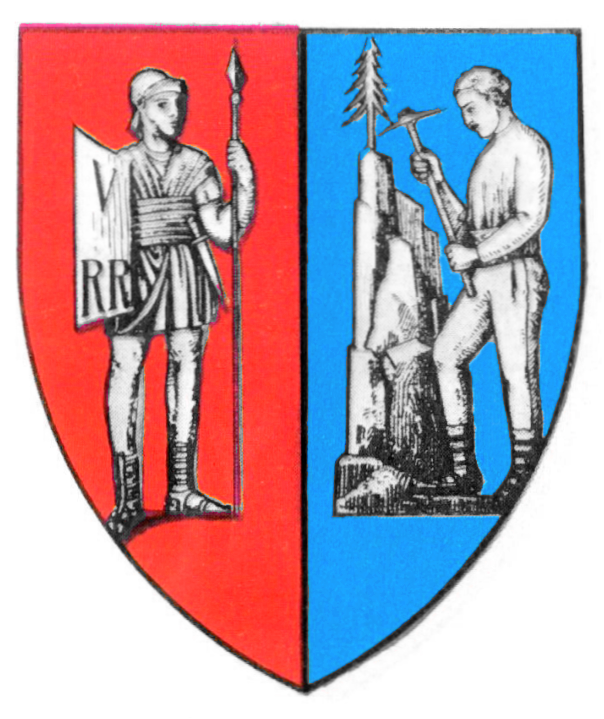 Interwar coat of arms of Caraș County, Kingdom of Romania.